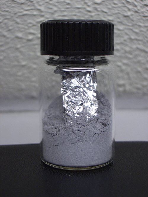 Aluminium powder with aluminium foil in it